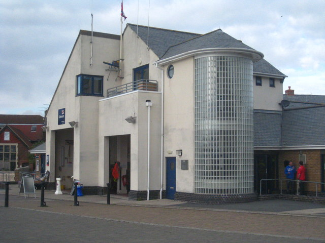 Littlehampton lifeboat station, Data from Geograph: Description: The station houses two inshore lifeboats. ICBM: 50.807931985709, -0.54464300990522 Location: (about 1 km from) near to Littlehampton, West Sussex, Great Britain.